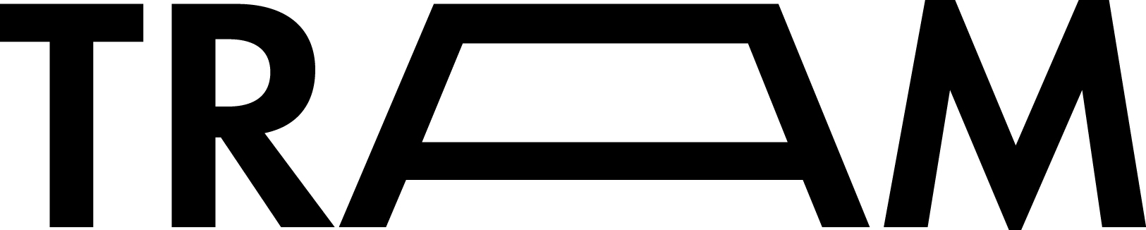 Logo of tram